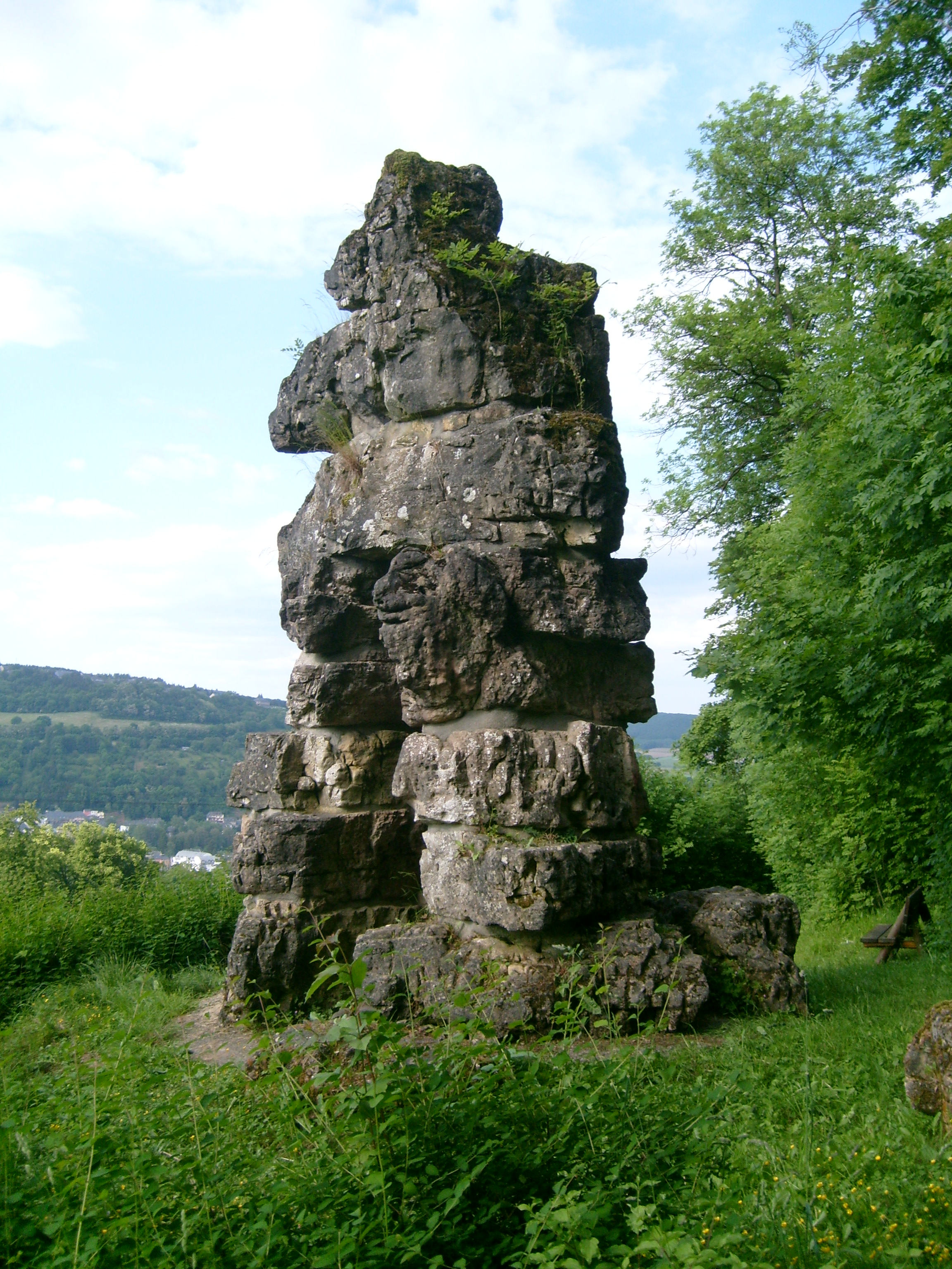 The megalithic dolmen named Deiwelselter in Diekirch, Luxembourg.